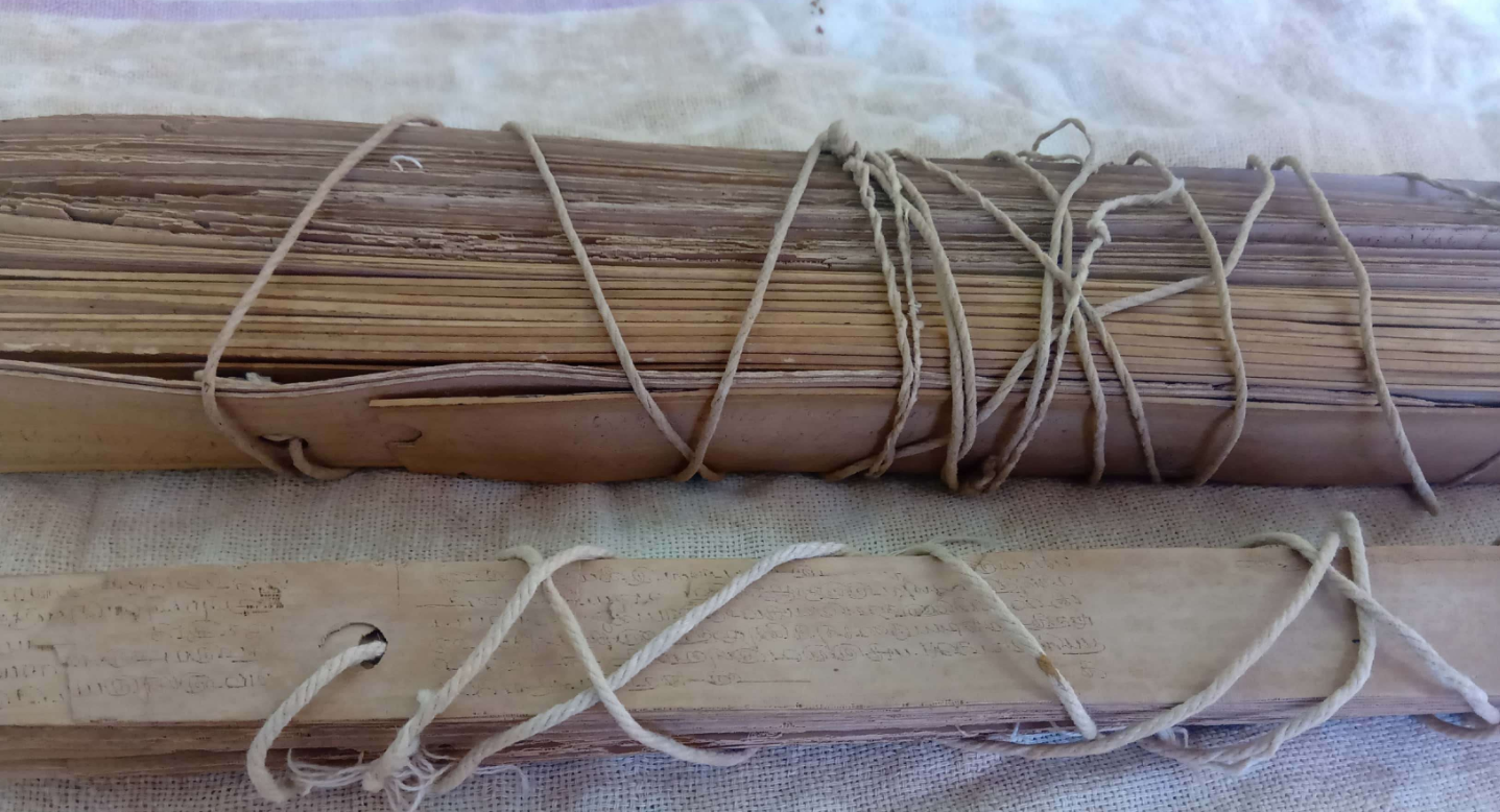 உறுதிக்கோட்டை நகரத்தார் ஓலை சுவடி முழு பார்வை